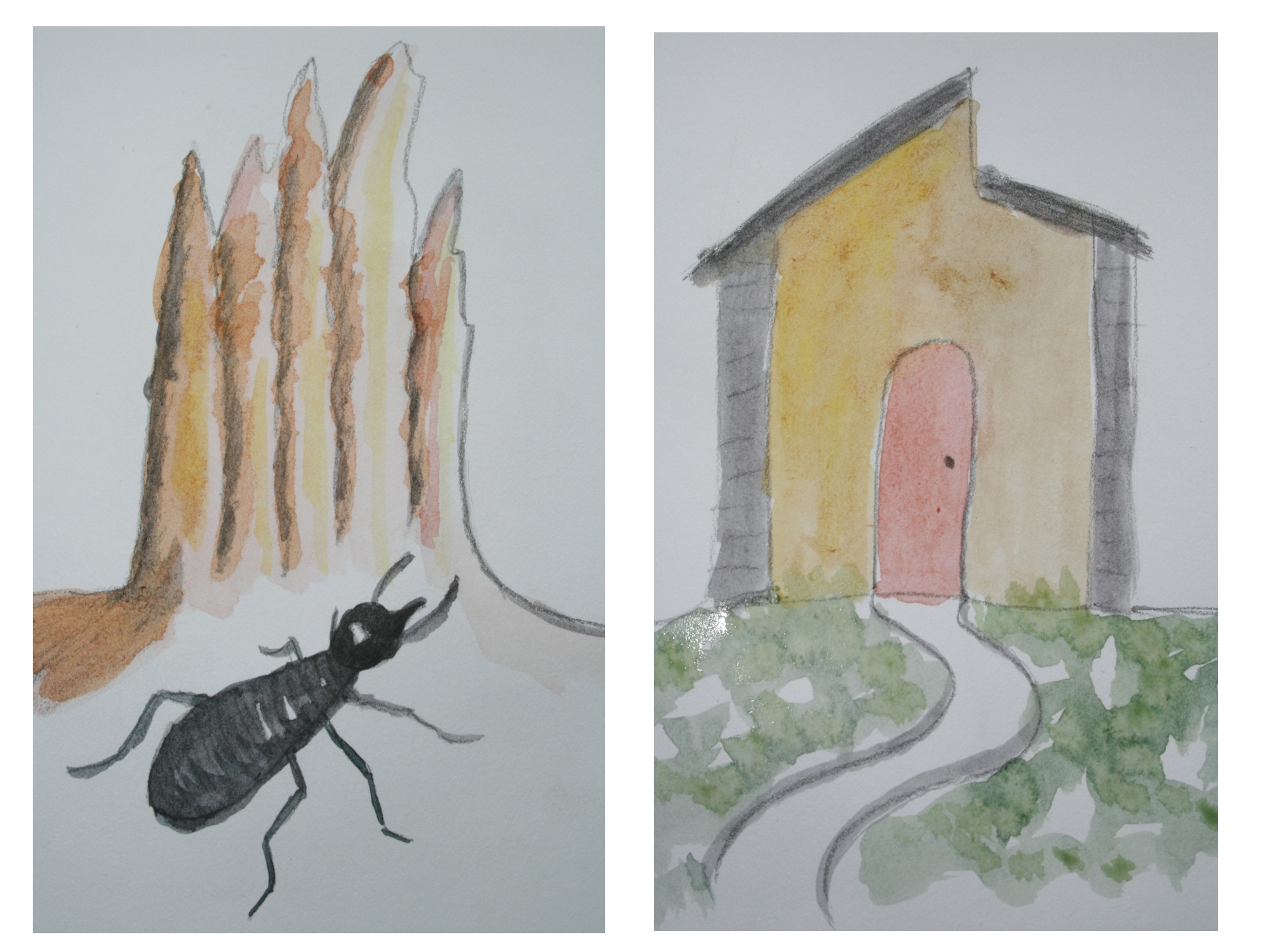 Termite and termite mound as example of insulation and internal climate control of housing, and how people can use similar natural techniques to create efficient climate control in their own dwellings